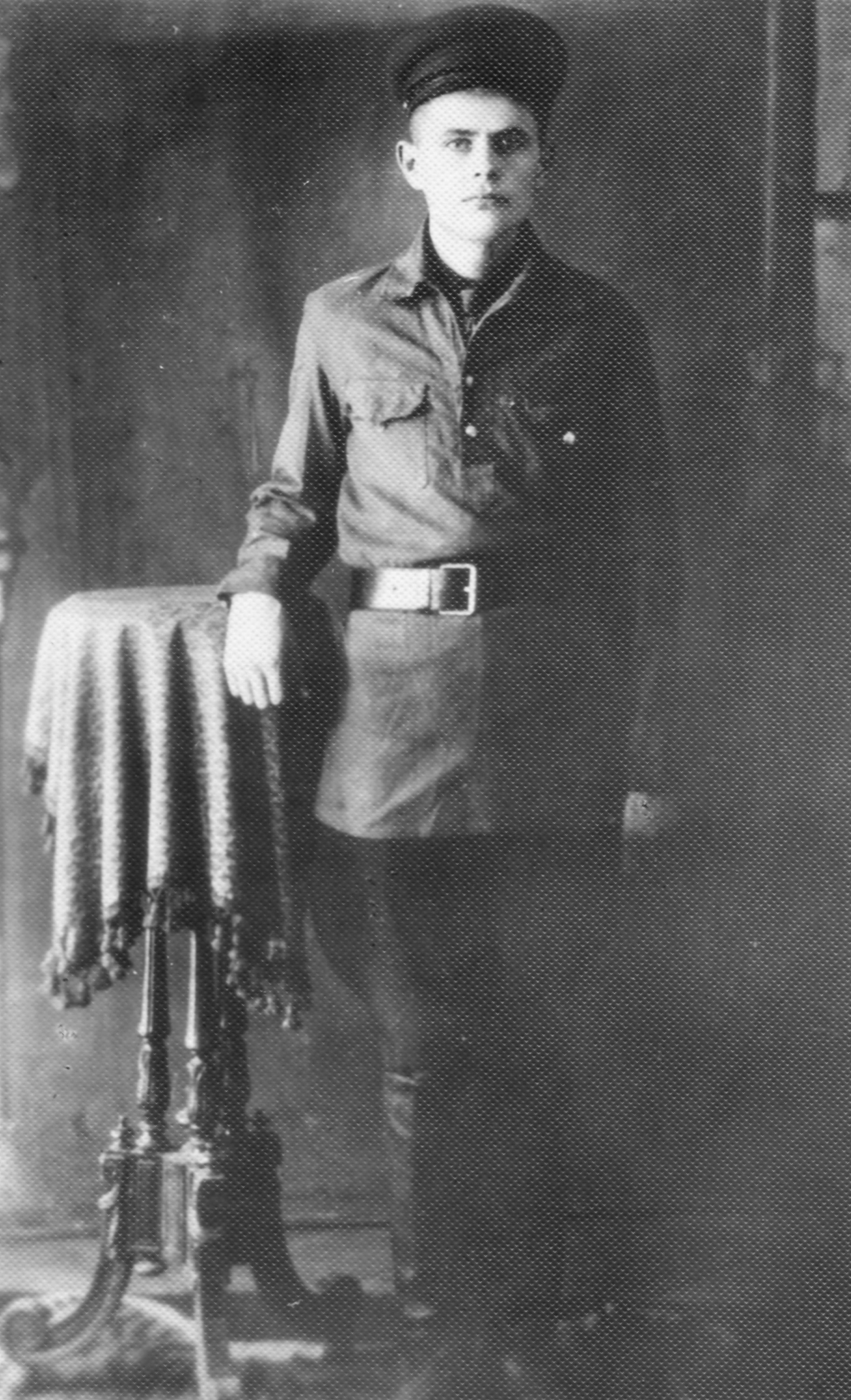 Soviet jurist Nikolay Dmitrievich Kazancev in 1930